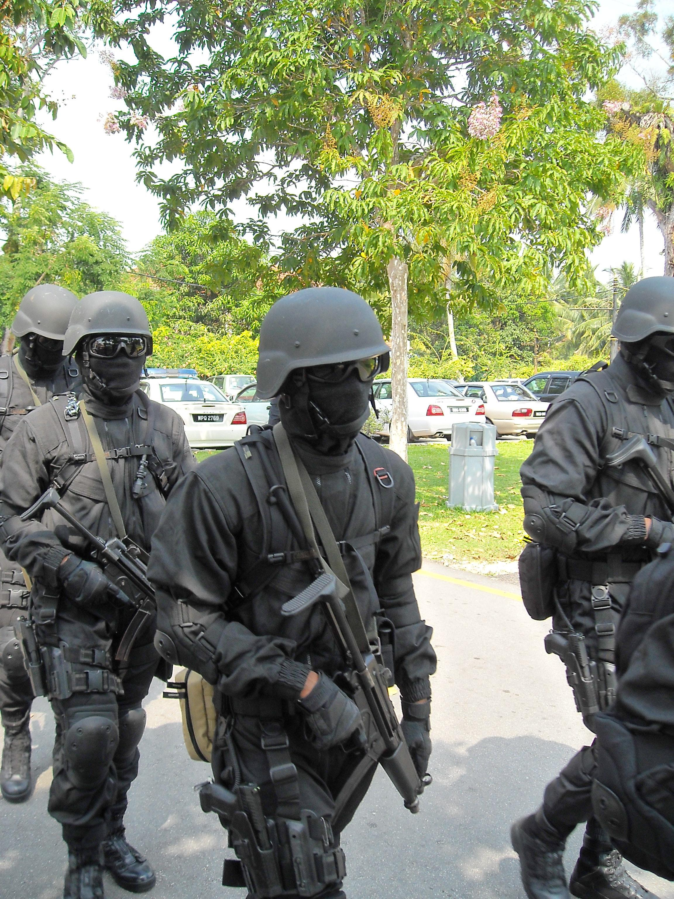 Masked UNGERIN operators holding the MP5A3 submachineguns on duty at Muar city after launched the Community Policing by Johor High Minister, Dato' Abdul Ghani Othman.